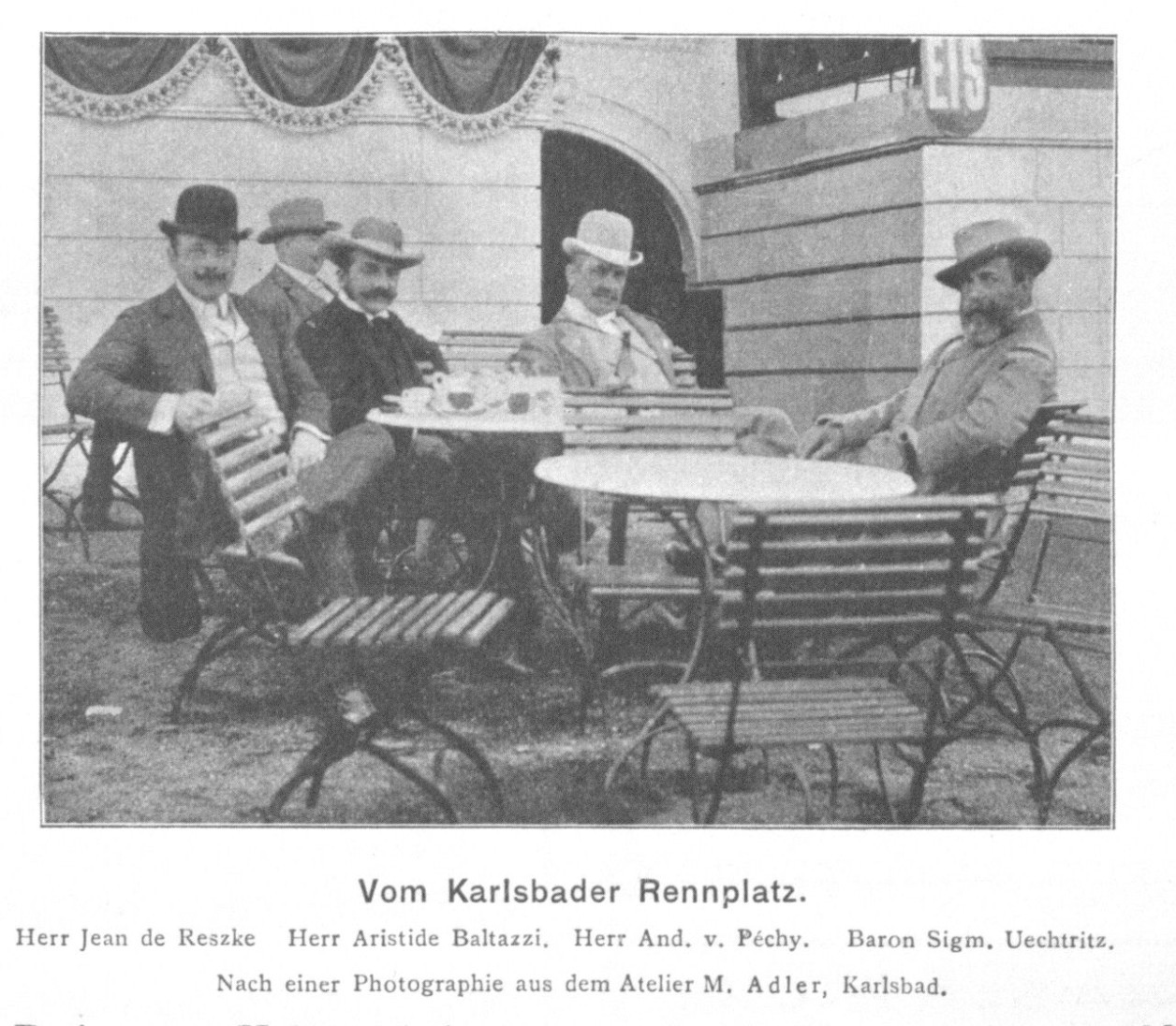 Opera singer Jean de Reszke, horse rider and breeder Aristides Baltazzi, Andor von Péchy and entrepreneur Sigmund von Uechtritz-Fuga at a horse racing track in Karlovy Vary (Karlsbad), Bohemia.